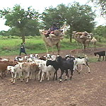 Nomads leaving Niger with their goat herd, Dakoro Department, Niger. During the 2005 Drought and Famine in Niger.